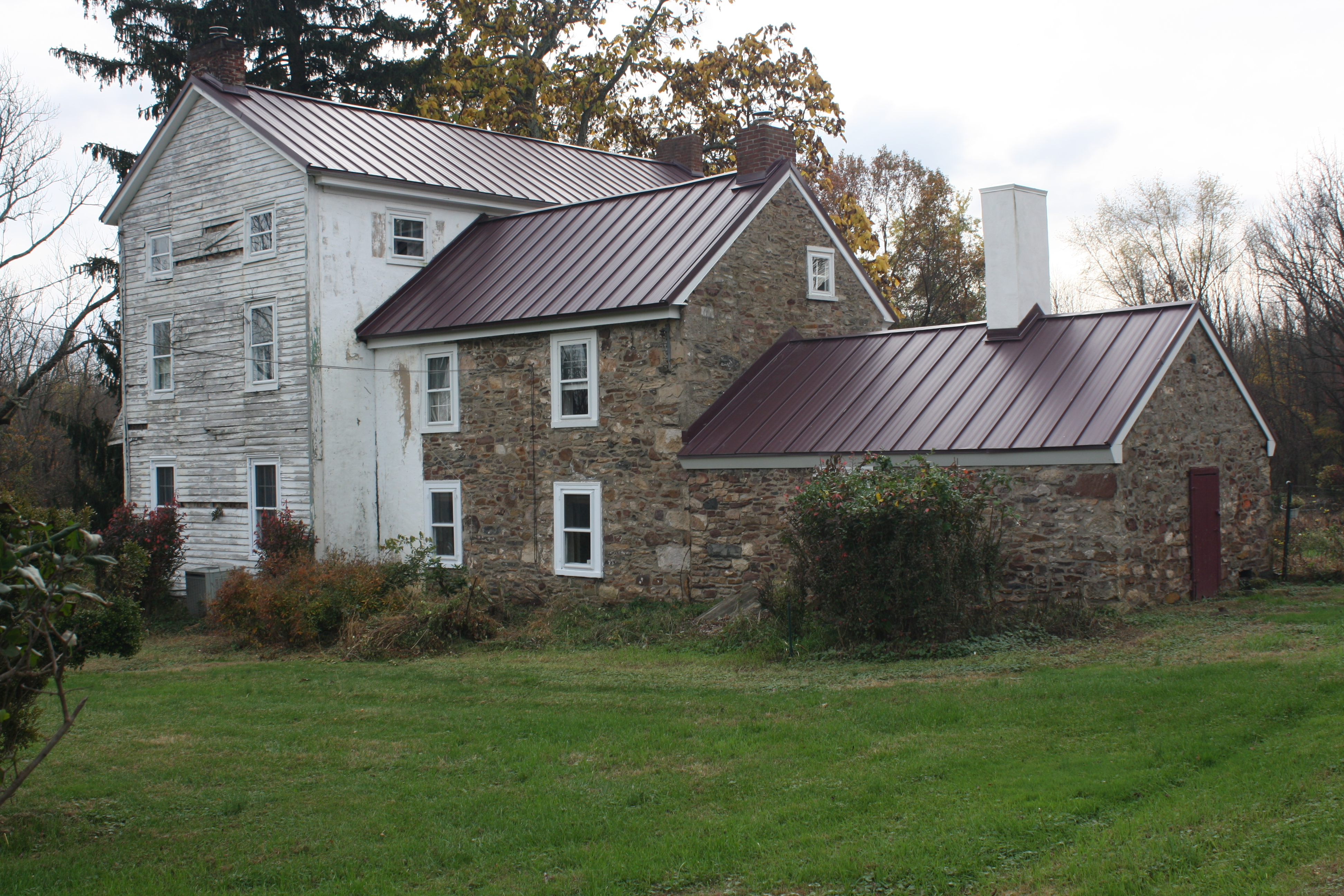 Morgan James Homestead is a historic home located at New Britain Township, Bucks County, Pennsylvania. Object location40° 18′ 19.08″ N, 75° 12′ 03.96″ W